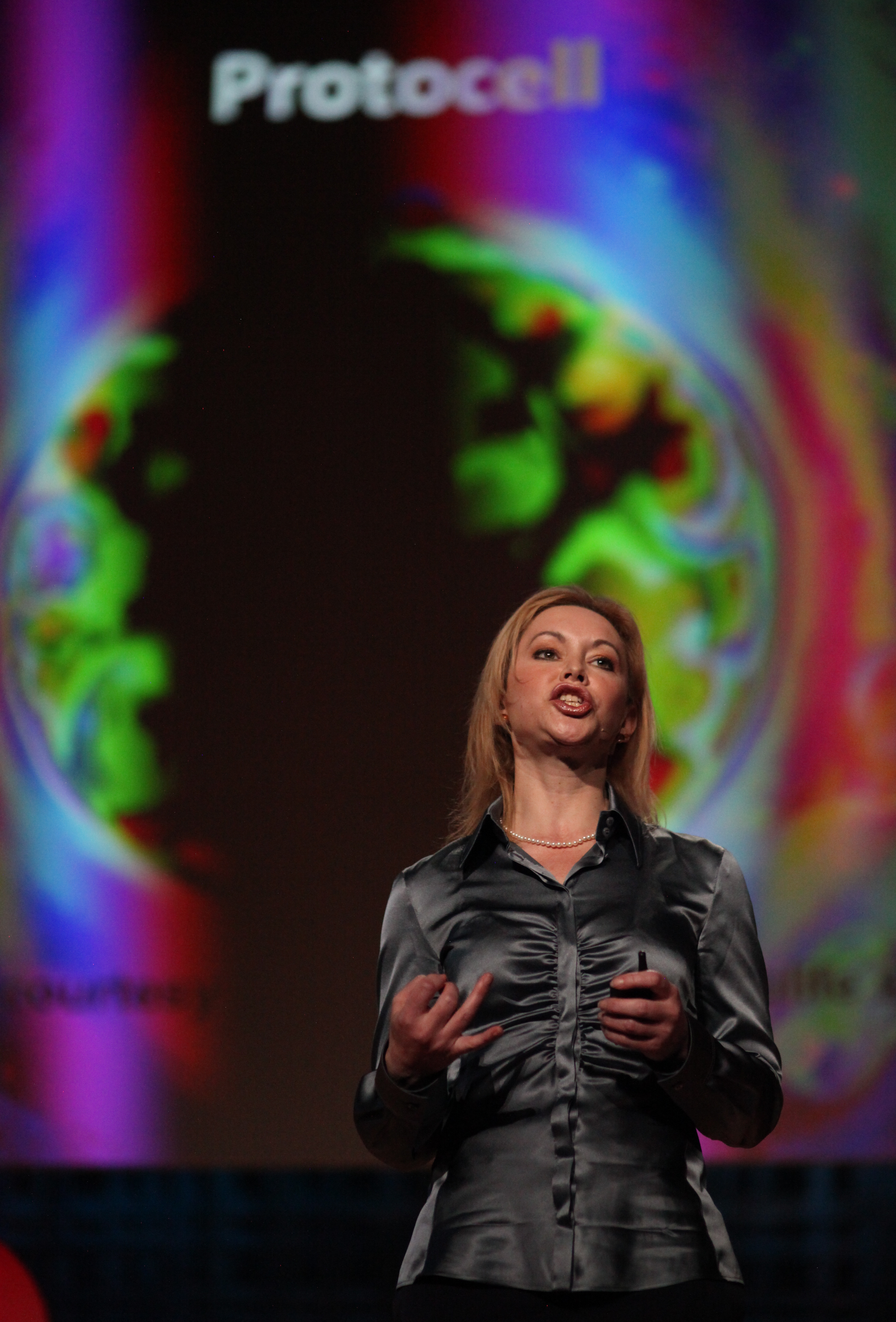 I just like this picture. While Rachel Armstrong is building cells with new chemistries for membranes, and no DNA, it reminds me of early life, spread across the planets. And that’s what we hope to sample for the first time this weekend with an astrobiology payload that samples the cyanobacteria and spores up there, lost in space. Two Clotho Rockets will hopefully explore that frontier… and since microbes have been found just about everywhere you look for them, we are hopeful. Will bring cameras.